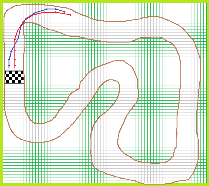 public domain game, corrida de vetores